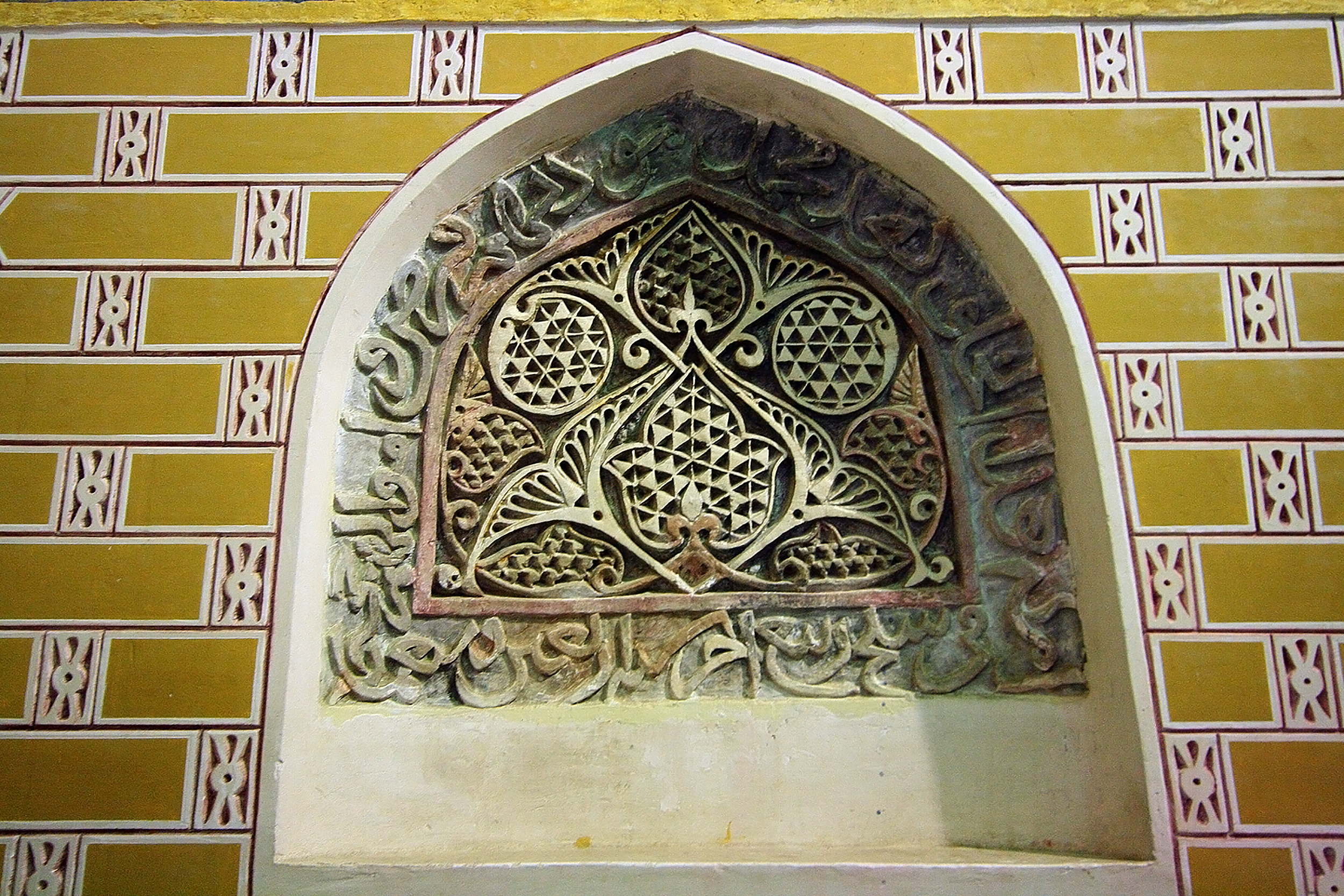 Qom also spelled as Ghom, is the eighth largest city in Iran. It lies 125 kilometres (78 mi) by road southwest of Tehran and is the capital of Qom Province. At the 2011 census its population was 1,074,036 (957,496 at the 2006 census, in 241,827 families), comprising 545,704 men and 528,332 women. It is situated on the banks of the Qom River. Qom is considered holy by Shiʿa Islam, as it is the site of the shrine of Fatema Mæ'sume, sister of Imam `Ali ibn Musa Rida (Persian Imam Reza, 789–816 AD). The city is the largest center for Shiʿa scholarship in the world, and is a significant destination of pilgrimage. Qom is famous for a brittle toffee called “Sohan” (Persian:سوهان), considered a souvenir of the city and sold by 2,000 to 2,500 “Sohan” shops.